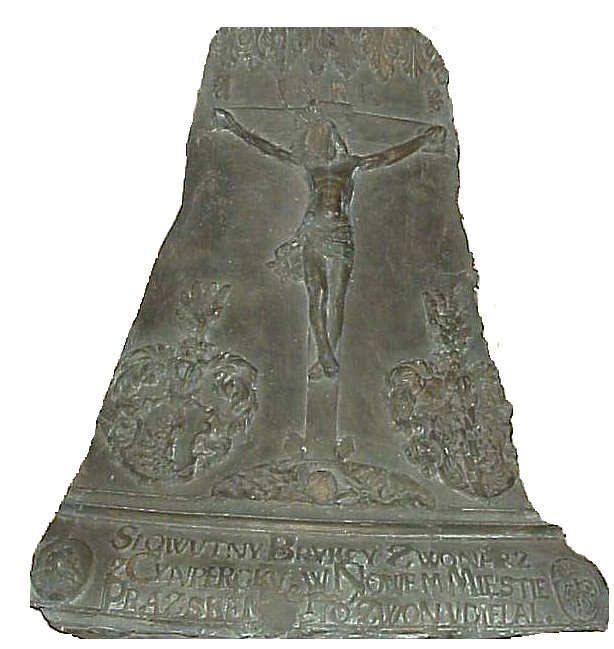 fragment of bell, 1595, Dubice, Ústí nad Labem District